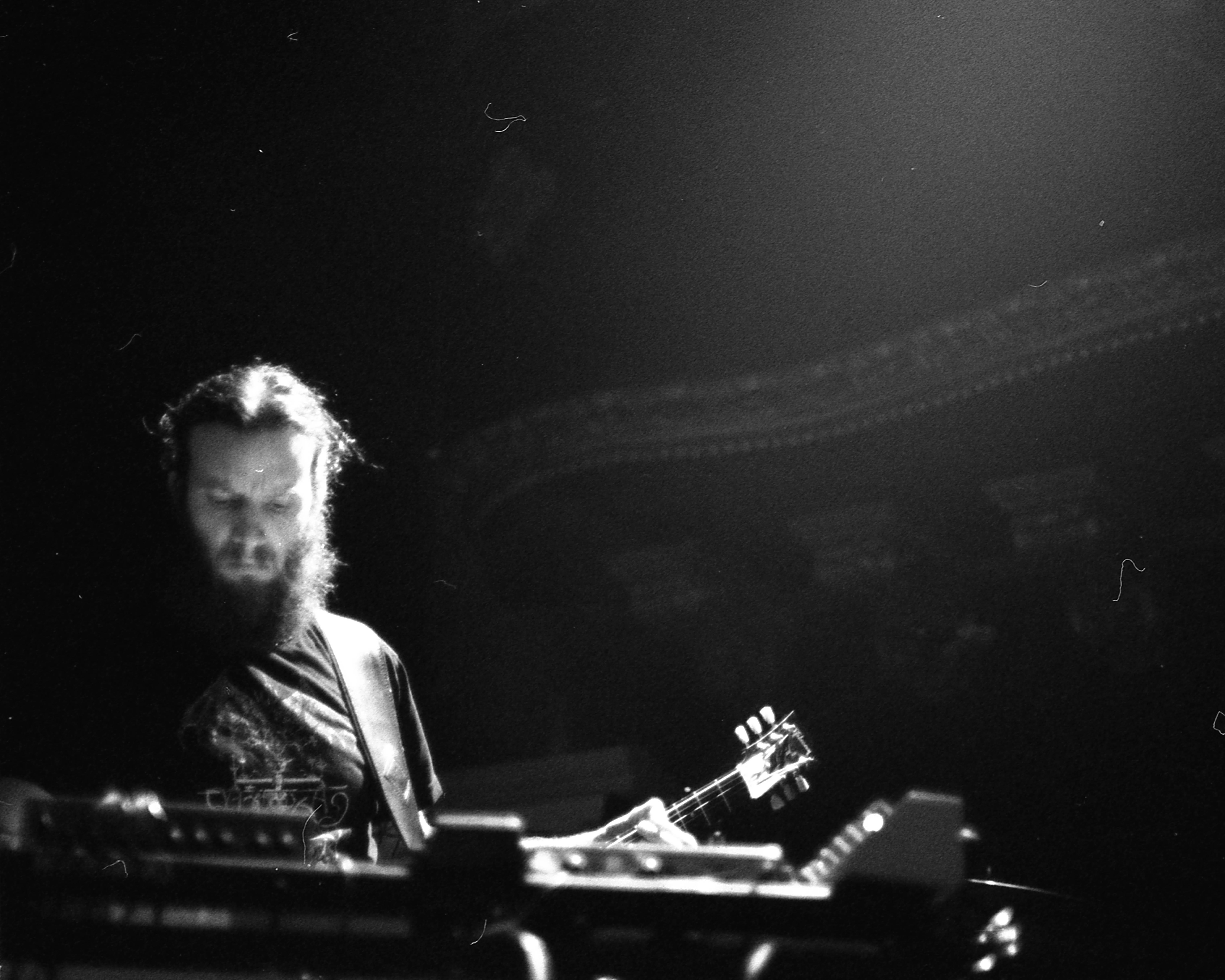 Aaron Turner of Mamiffer performing live in 2015